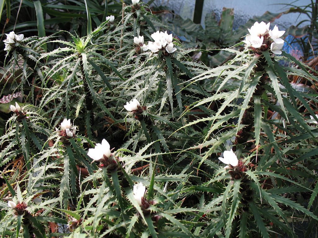 Cryptanthus (Rokautskyia) microglazioui in cultivation at the Botanical Garden of Heidelberg, Germany.